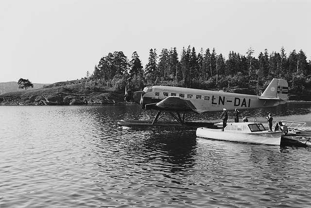 Oslo Airport, Fornebu on opening day: 1 July 1939 with a Ju-52 from Det Norske Luftfartselskap